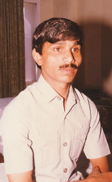 Akbar Khan, 1987